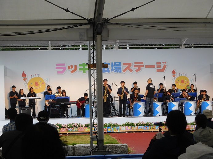 Athletics Competition at the 74th National Sports Festival of Japan. Mito Technical High School students are playing instruments at the Lucky Plaza.